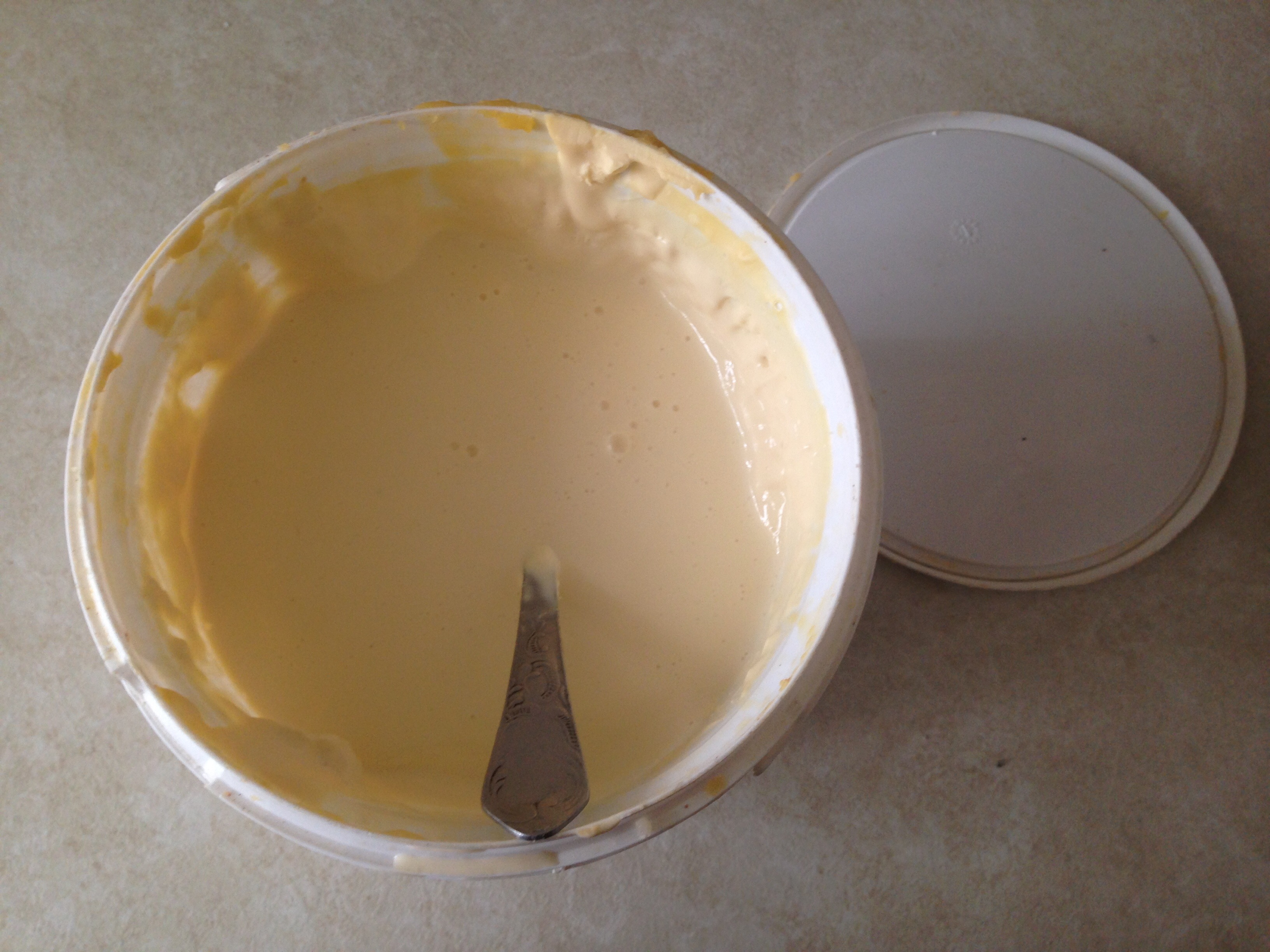 A bucket containing კაიმაღი (kaimaghi), a thick Adjaran dairy product similar to Turkish kaymak. The photo was taken in a home in Keda Municipality, Adjara, Georgia in March 2019.